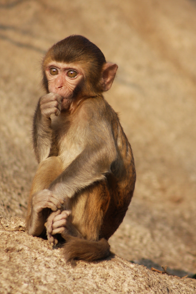 Lion Rock County Park.